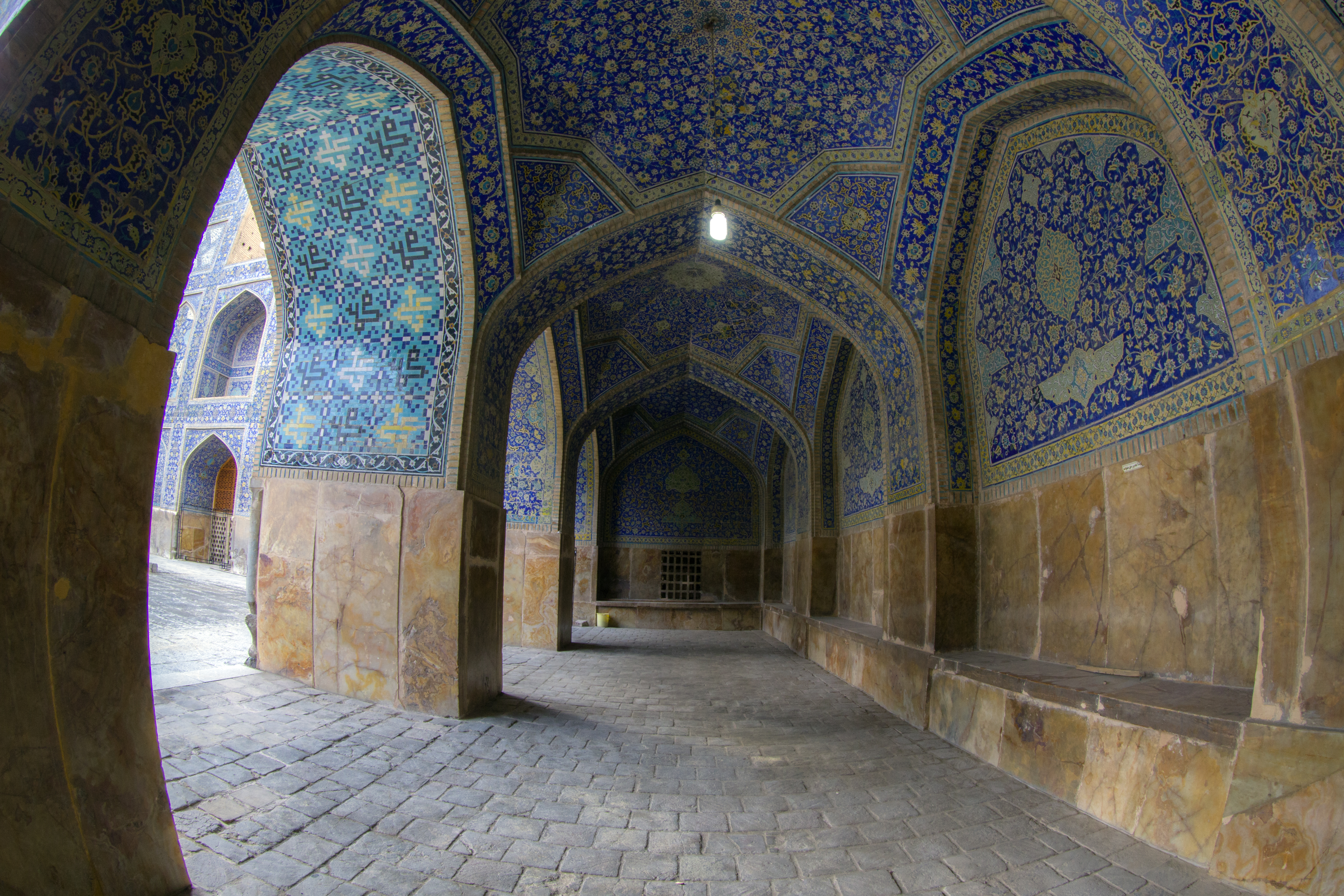 The Shah Mosque, also known as Royal Mosque or Imam Mosque after Iranian revolution, is a mosque in Isfahan, Iran, standing in south side of Naghsh-e Jahan Square.